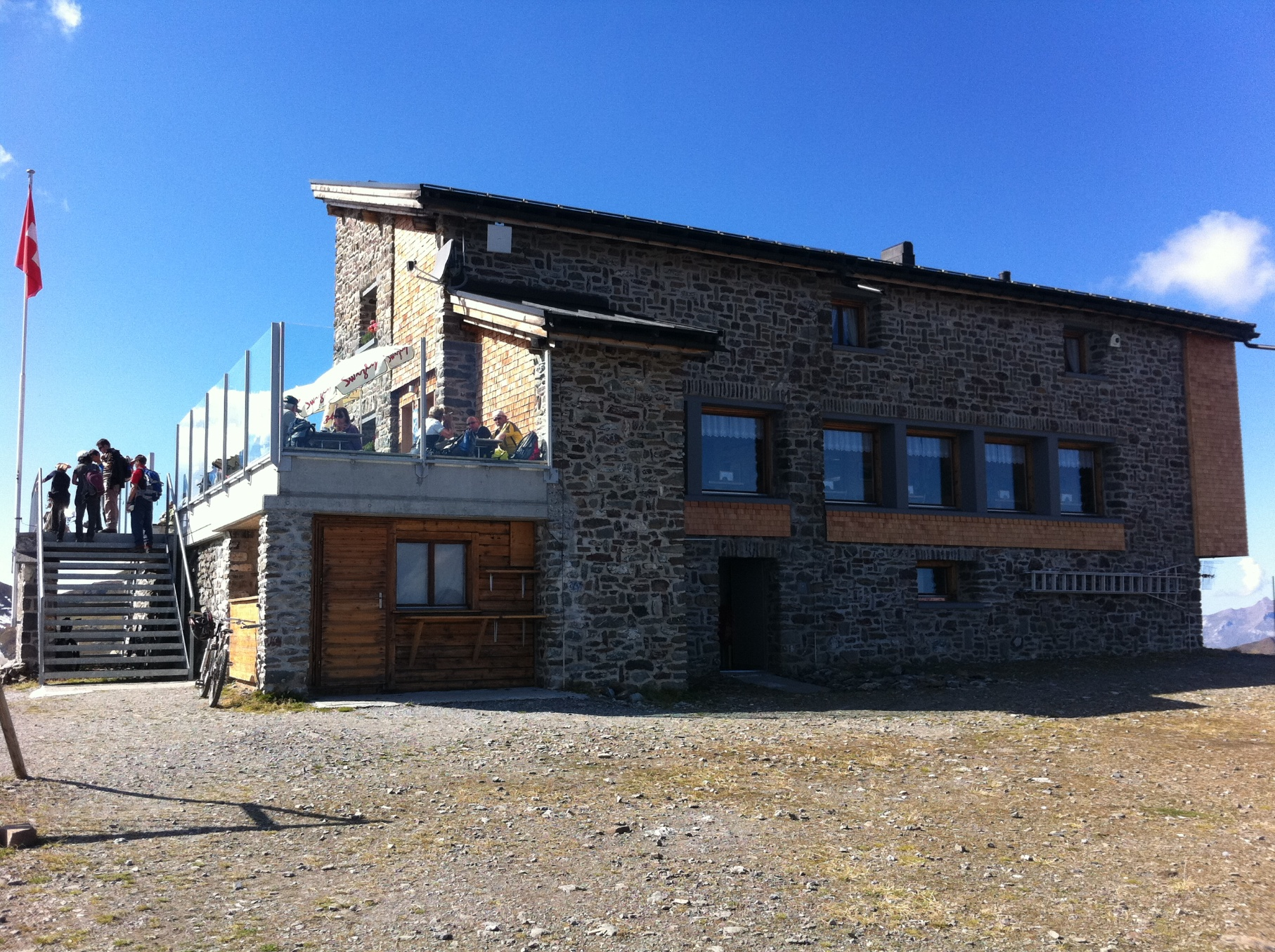 Hörnli alpine hut at Arosa